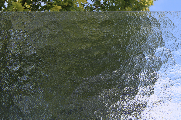 A sample of Cathedral Glass